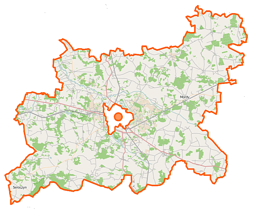 Map of Powiat siedlecki, Poland This map of Powiat siedlecki was created from OpenStreetMap project data, collected by the community. This map may be incomplete, and may contain errors. Don't rely solely on it for navigation. Border coordinates52.424221.8504←↕→22.760951.9603